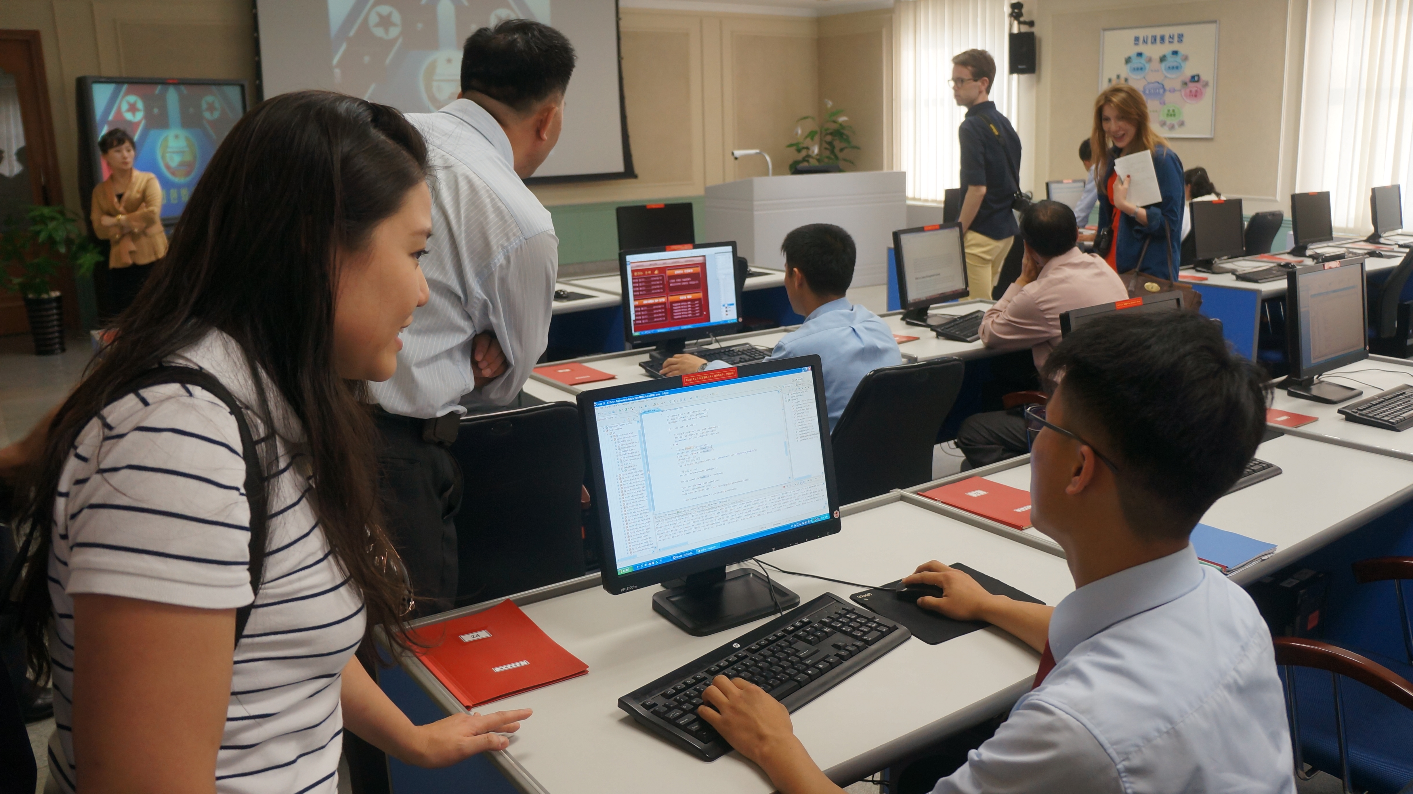 Kim Il Sung University - student tour